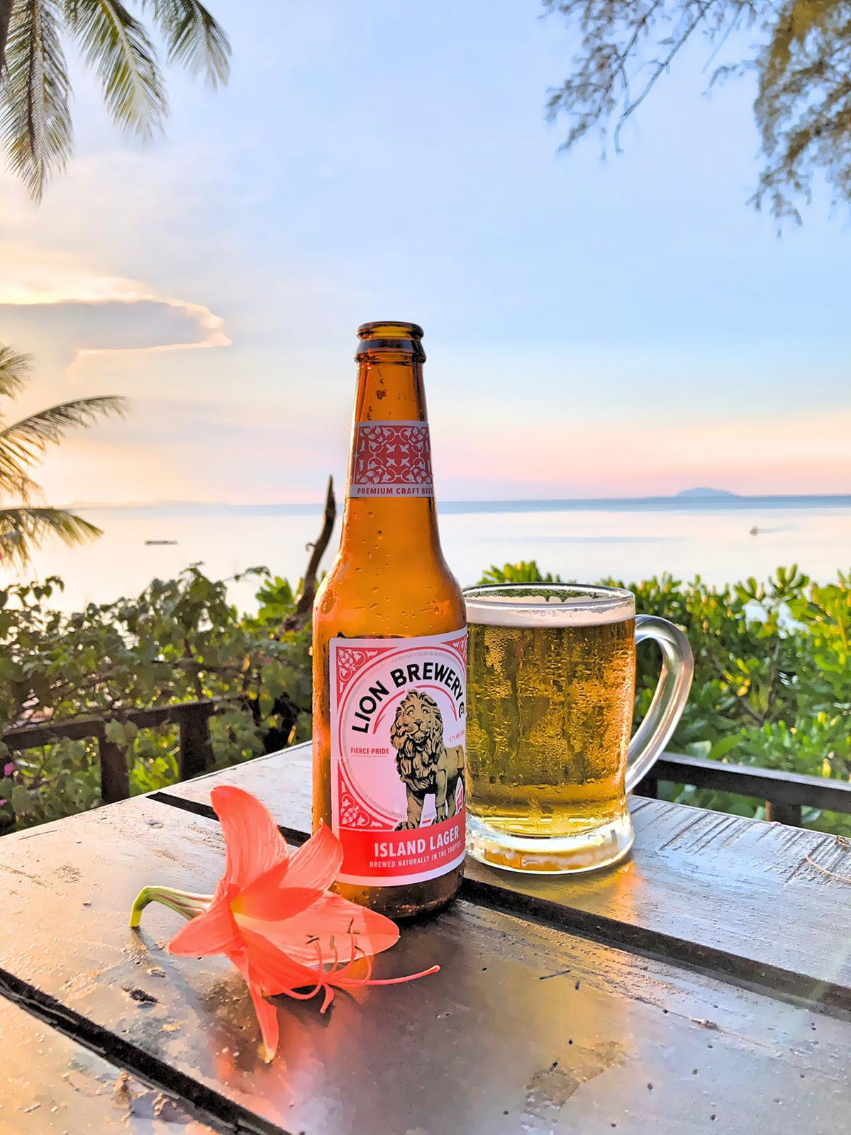 having a beer in Singapore